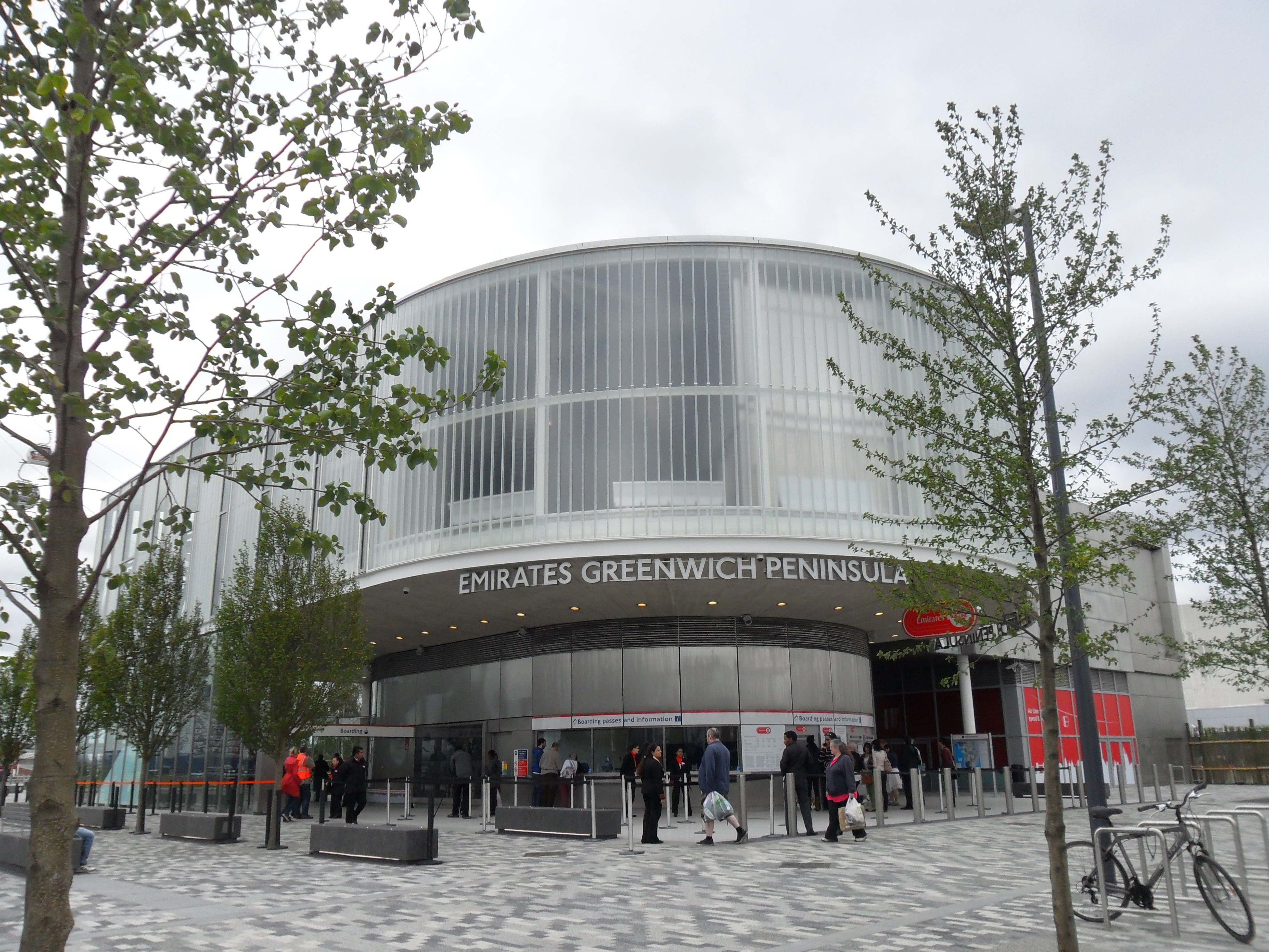 Emirates Greenwich Peninsula station.